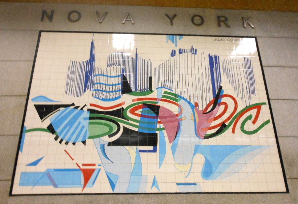 Art by Nadir Afonso at Restauradores metro station, Lisbon, Portugal